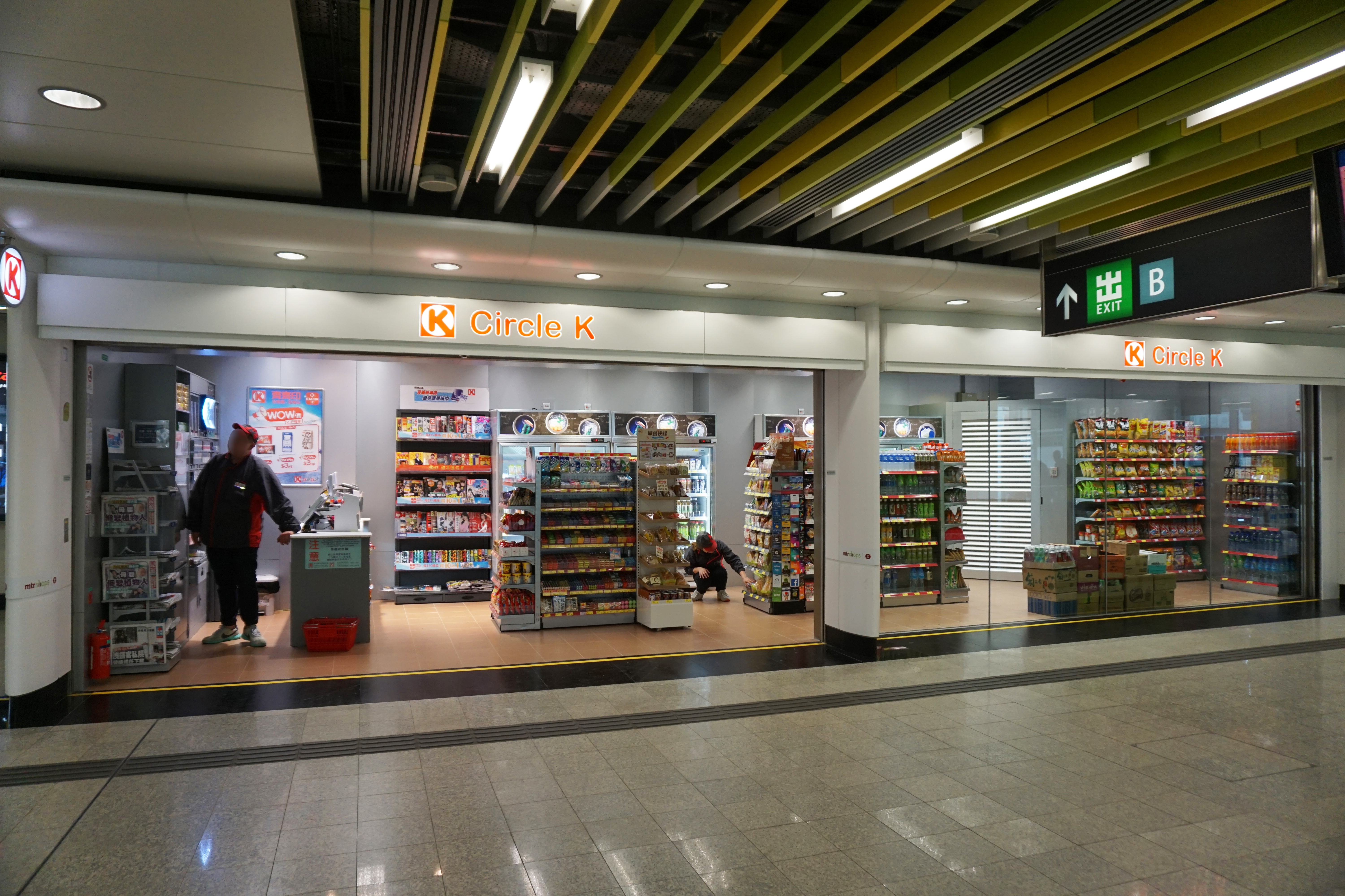 Circle K store at MTR Wong Chuk Hang station concourse